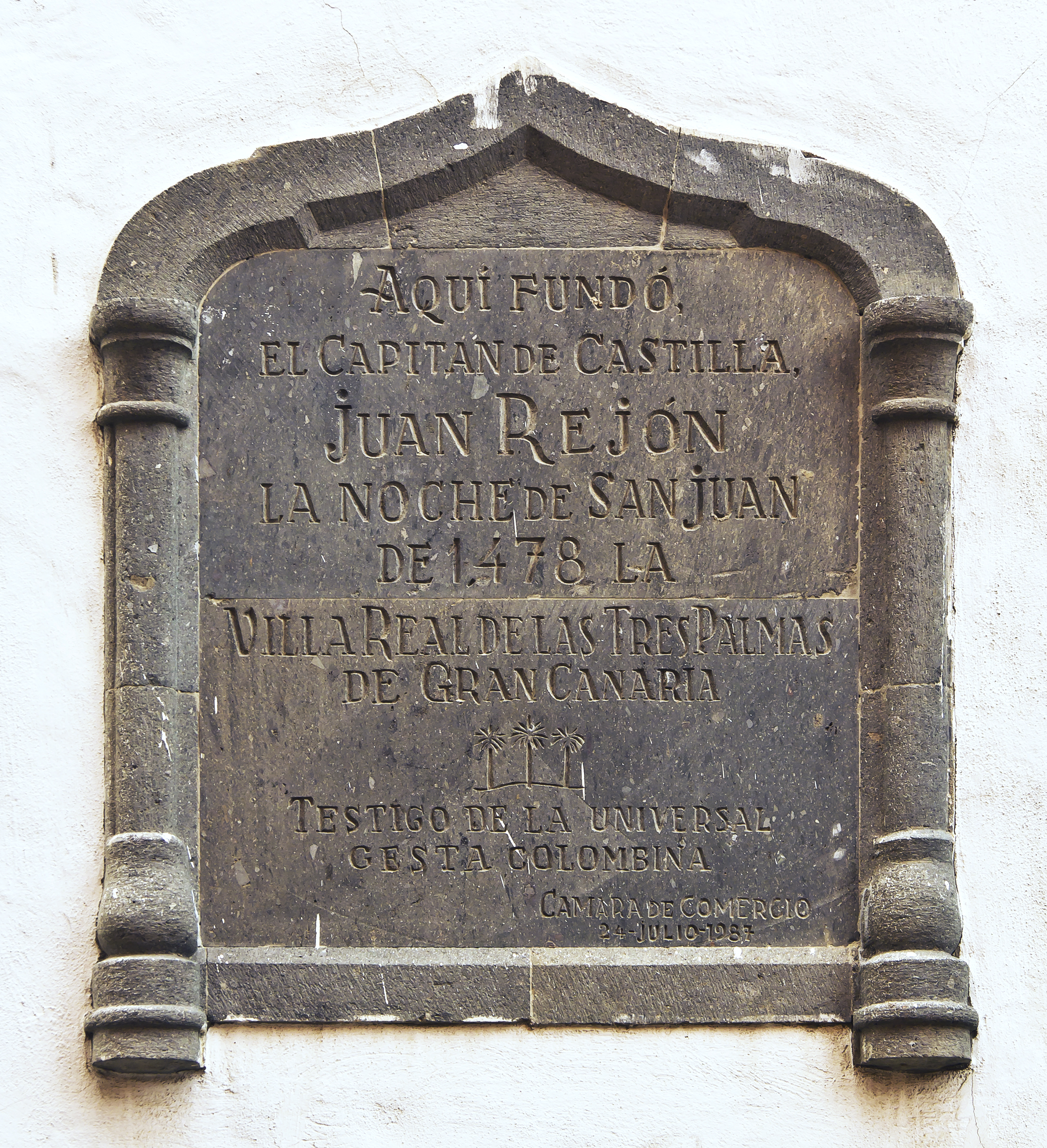 City of Las Palmas de Gran Canaria foundational conmemorative inscription (1478), Vegueta Quarter, Las Palmas de Gran Canaria (Gran Canaria). Canary Islands (Spain).